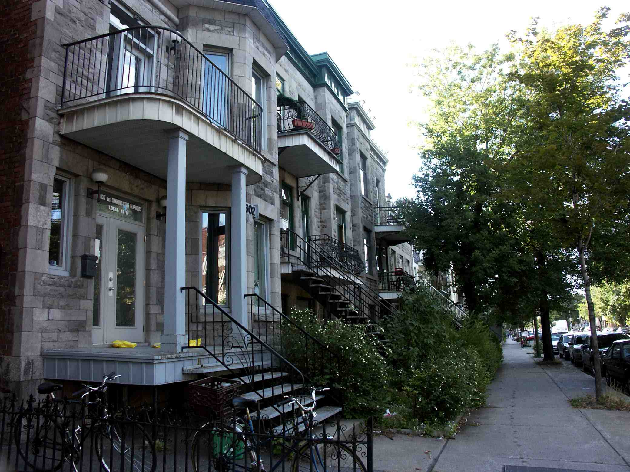 Saint-Denis Street in the quarter of Rosemont, in Montreal. Photo by User:Gene.arboit